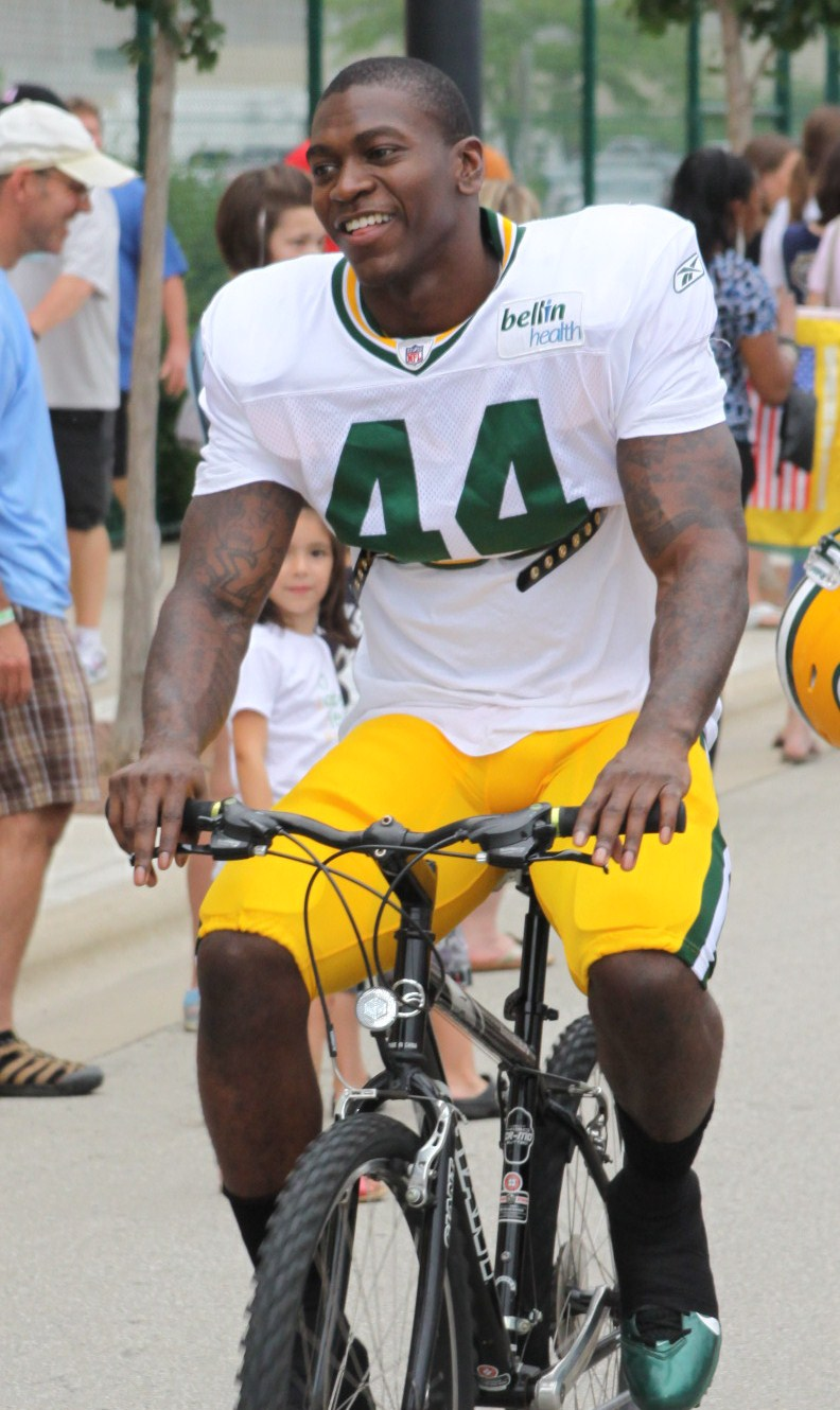 Green Bay Packer running back James Starks riding a fan's bicycle at pre-season training camp, Green Bay Wisconsin, August 1, 2011